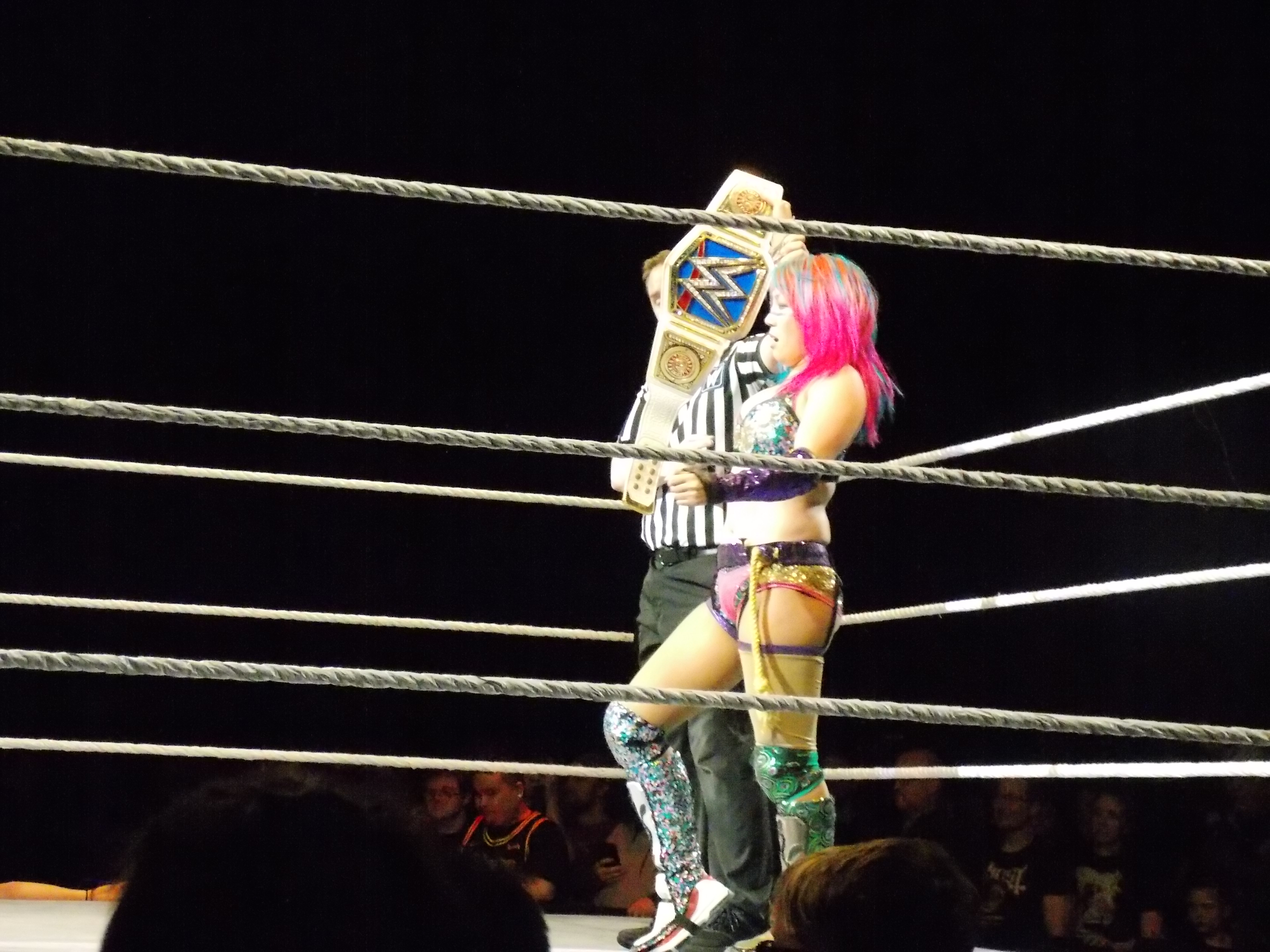 Asuka retaining the WWE SmackDown Women's Championship at a WWE Live Event House Show in Omaha, Nebraska, USA on Sunday, January 20, 2019